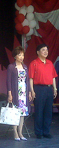 The Honourable Philip S. Lee, C.M., O.M. Lieutenant Governor of Manitoba and Her Honour Anita K. Lee Spouse of The Lieutenant Governor of Manitoba at Assiniboine Park, Canada Day.